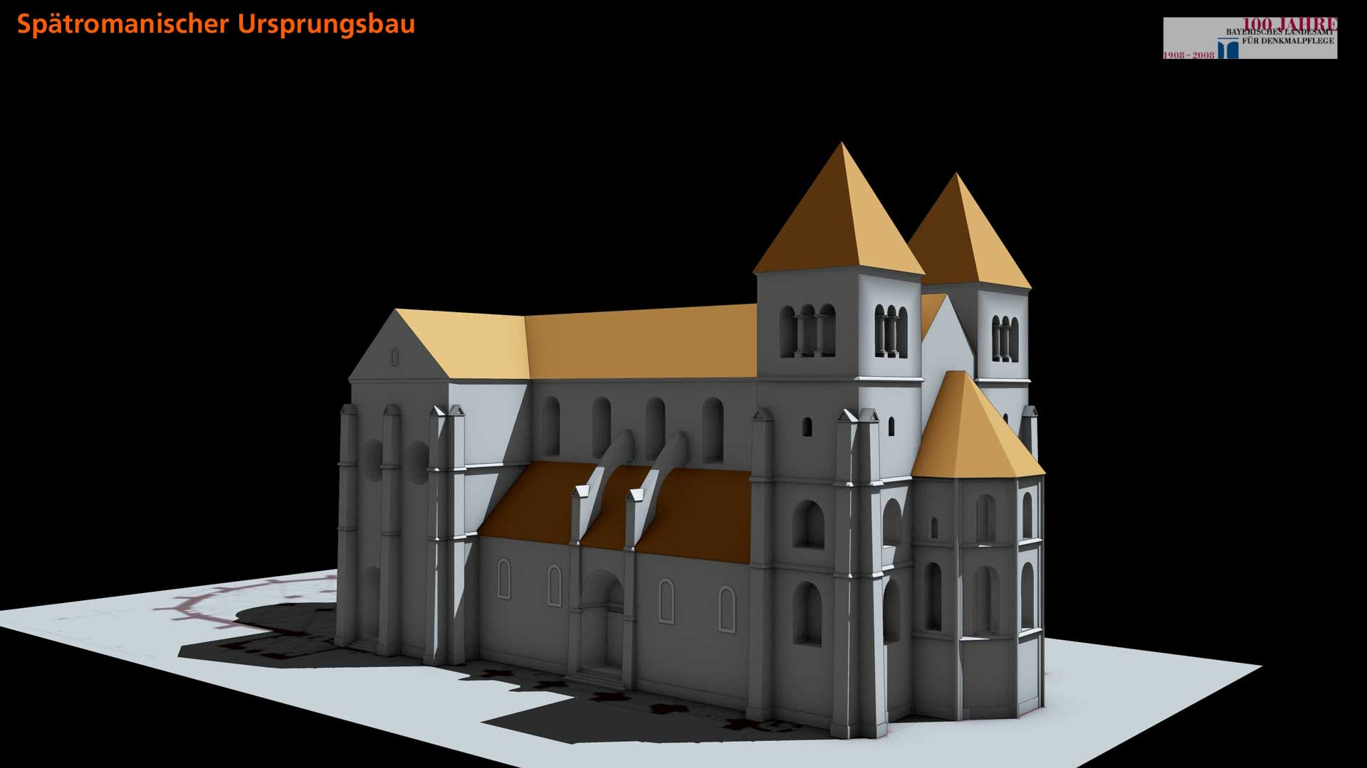 3D historical restoration of the Romanesque-period form of the St. Sebald Church. It was errected in the 13th Century as a late Romanesque pier basilica with two choirs. Consisting of a three aisled nave and a one aisled transept, it had an east and a west choir. The church was in this form between 1225-1309.